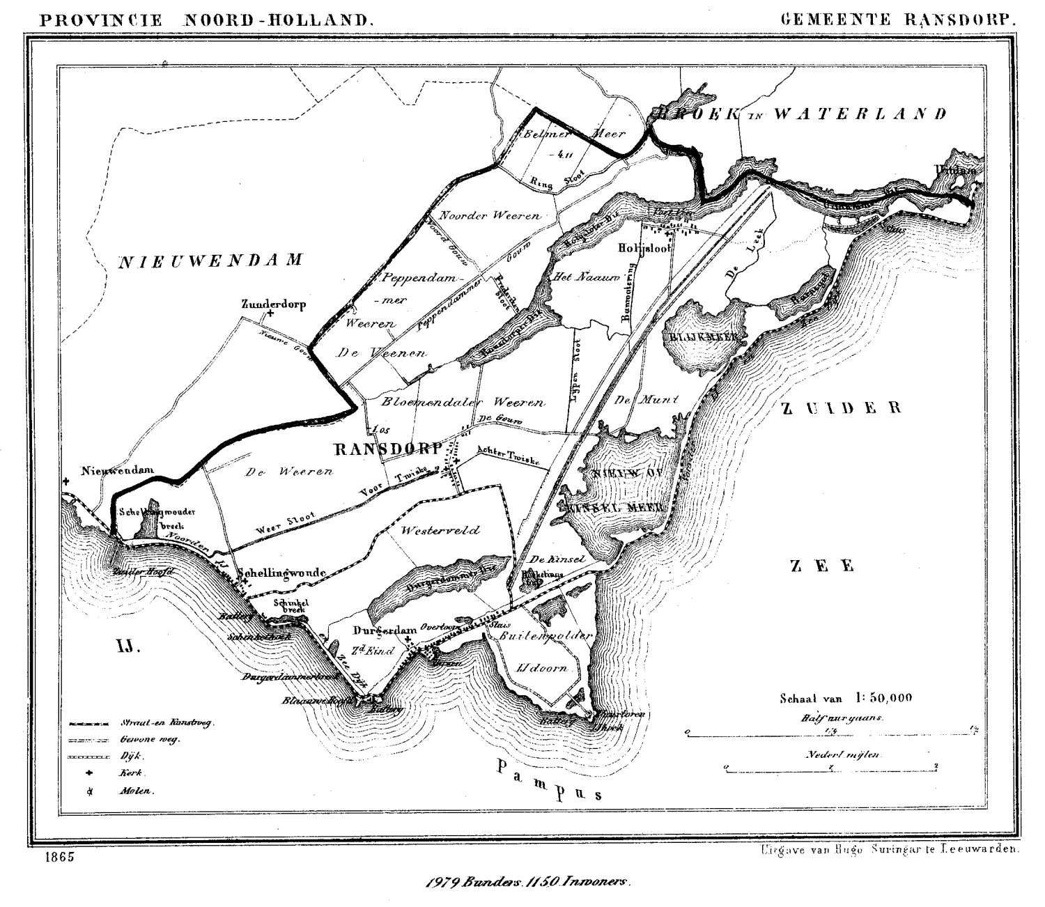 Historic map of Ransdorp (now part of Amsterdam), North Holland, the Netherlands